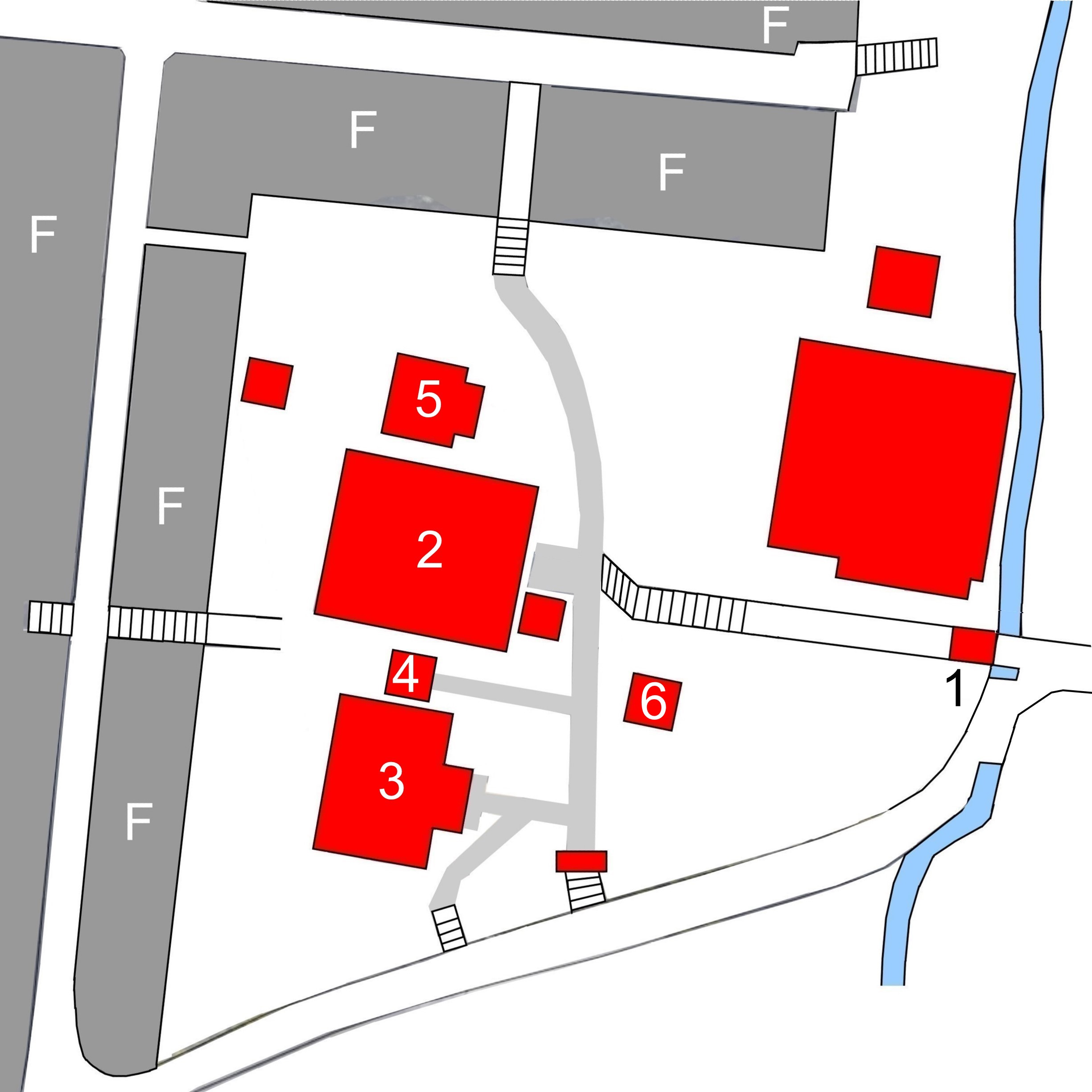 Layout of temple Yasaka-ji (Matsuyama), Japan